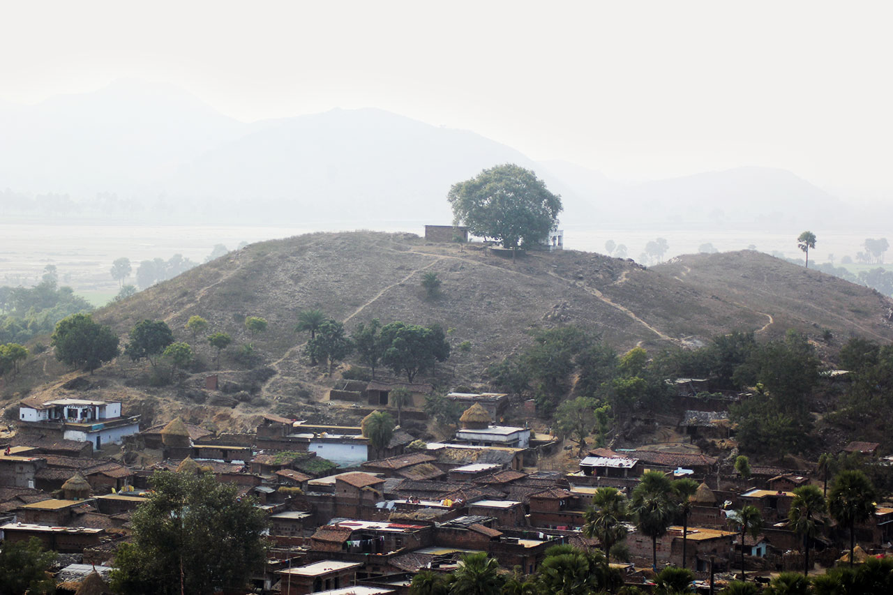 This is the picture of Delhua village.